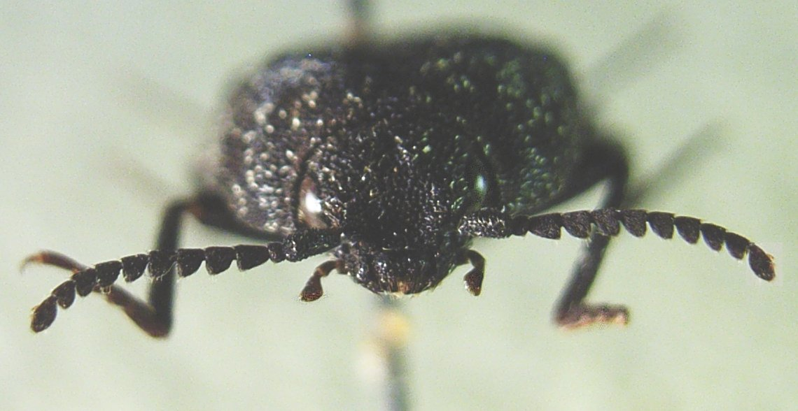 Front of Lacon punctatus